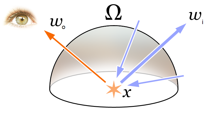 A diagram of the rendering equation, which solves for the total amount of light reflected along a particular viewing direction from a point x, given a function for incoming light and a BRDF.